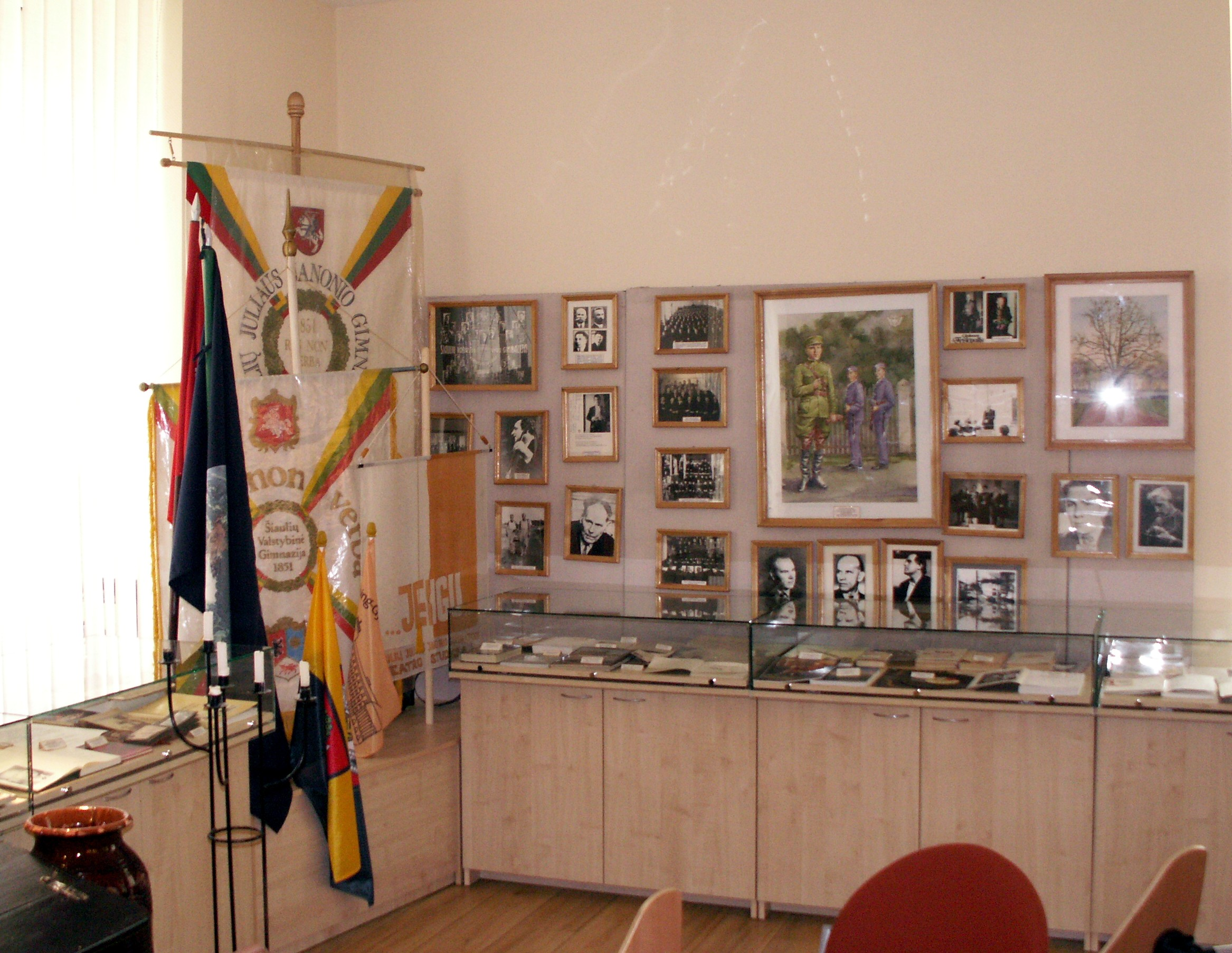 Museum of Šiauliai gymnasium, Lithuania